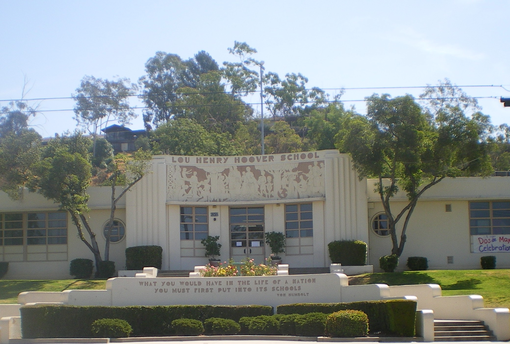 Lou Henry Hoover School, Whittier, California, built 1938